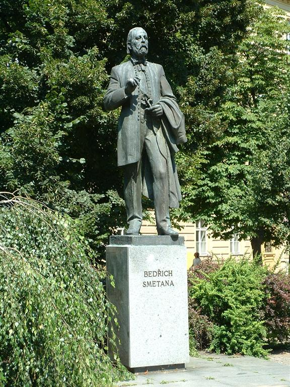 Bedrich Smetana's statue in Pilsen